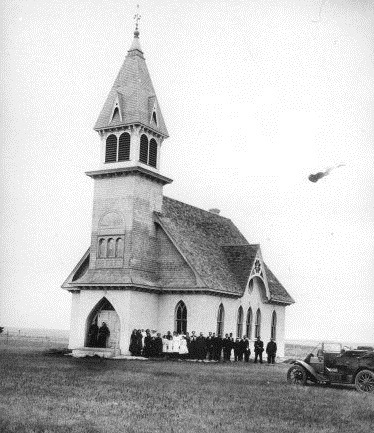 Photograph of the Norway Lutheran Church near Denbigh, North Dakota. The church was built in 1907. The photograph dates to 1912.